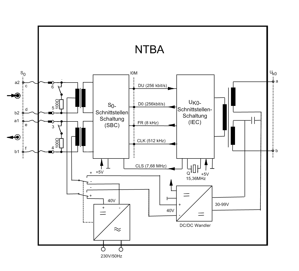 ISDN NTBA